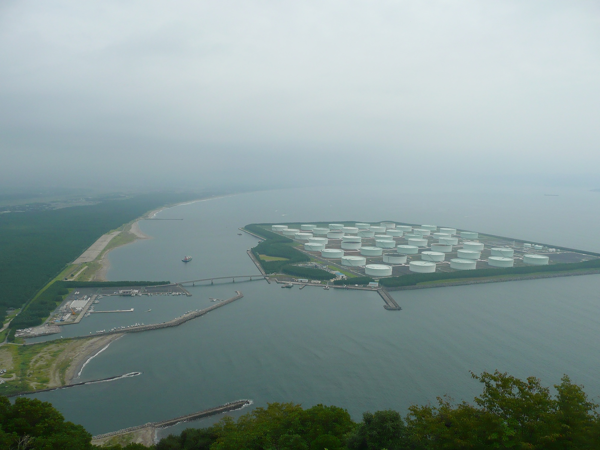 Shibushi Oil Stockpile Site (Kagoshima Prefecture, Japan)